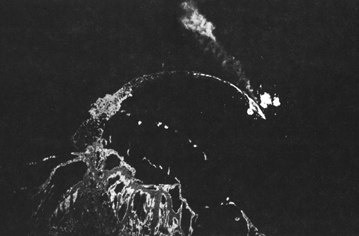 B-17s of the 11th Bombardment Group based at Espiritu Santo bomb the damaged Japanese battleship Hiei north of Savo Island on November 13, 1942. Hiei, which was damaged in the 1st engagement of the Naval Battle of Guadalcanal hours earlier, appears to be trailing fuel.